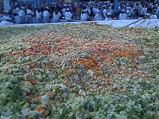 Greatest lettuce salad in the world, Sde Warburg, Israel.